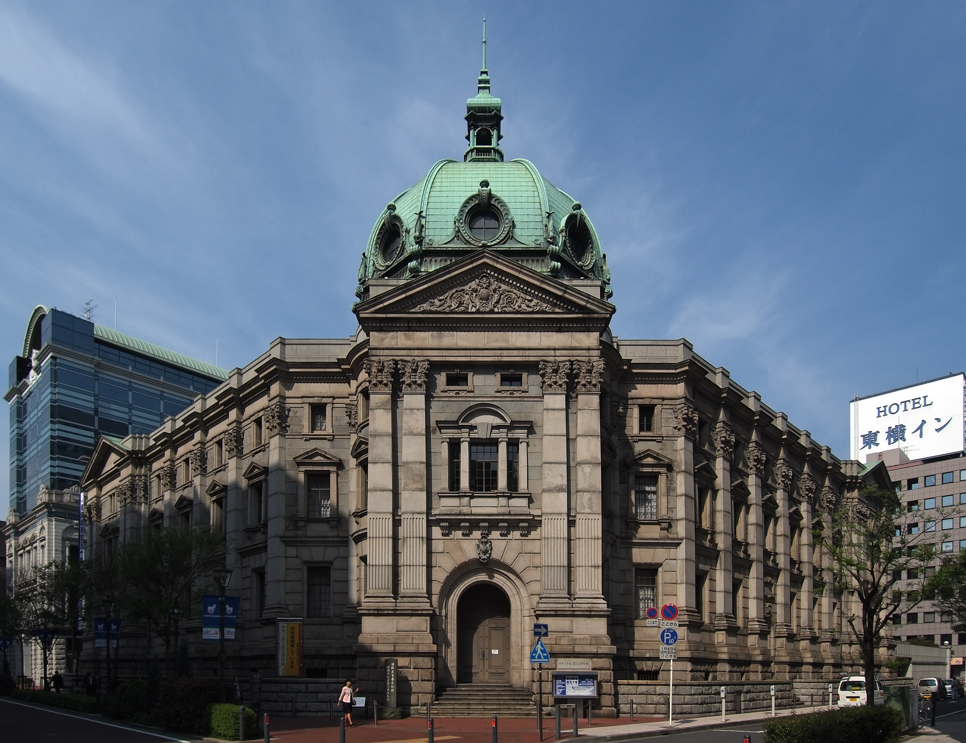 Kanagawa Prefectural Museum of Cultural History (Former Yokohama Shokin Ginko), at Naka-ku Yokohama Japan, design by Yorinaka Tsumaki & Oto Endo in 1904.